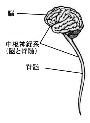 Diagram of central nervous system, Japanese version.